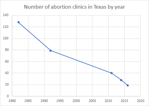 Number of abortion clinics in Texas by year. Data is from articles linked at